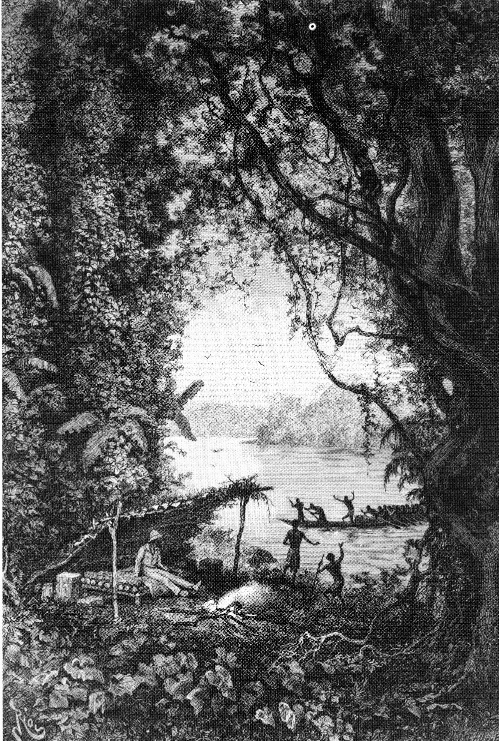 The explorer Pietro Savorgnan di Brazza and his braves laptots ("good rowers"), somewhere in Africa.